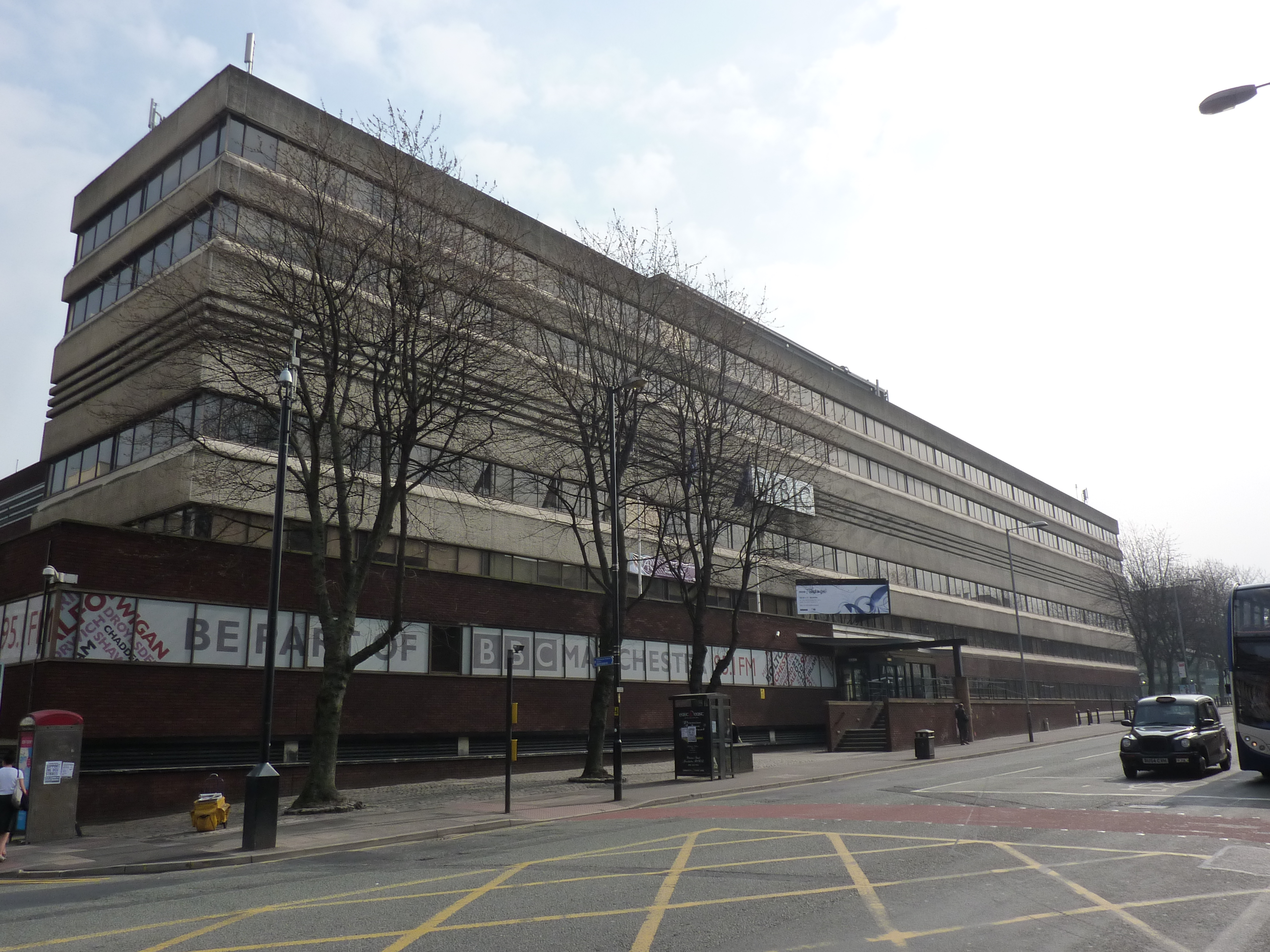 The front of New Broadcasting House, seen from Oxford Road.